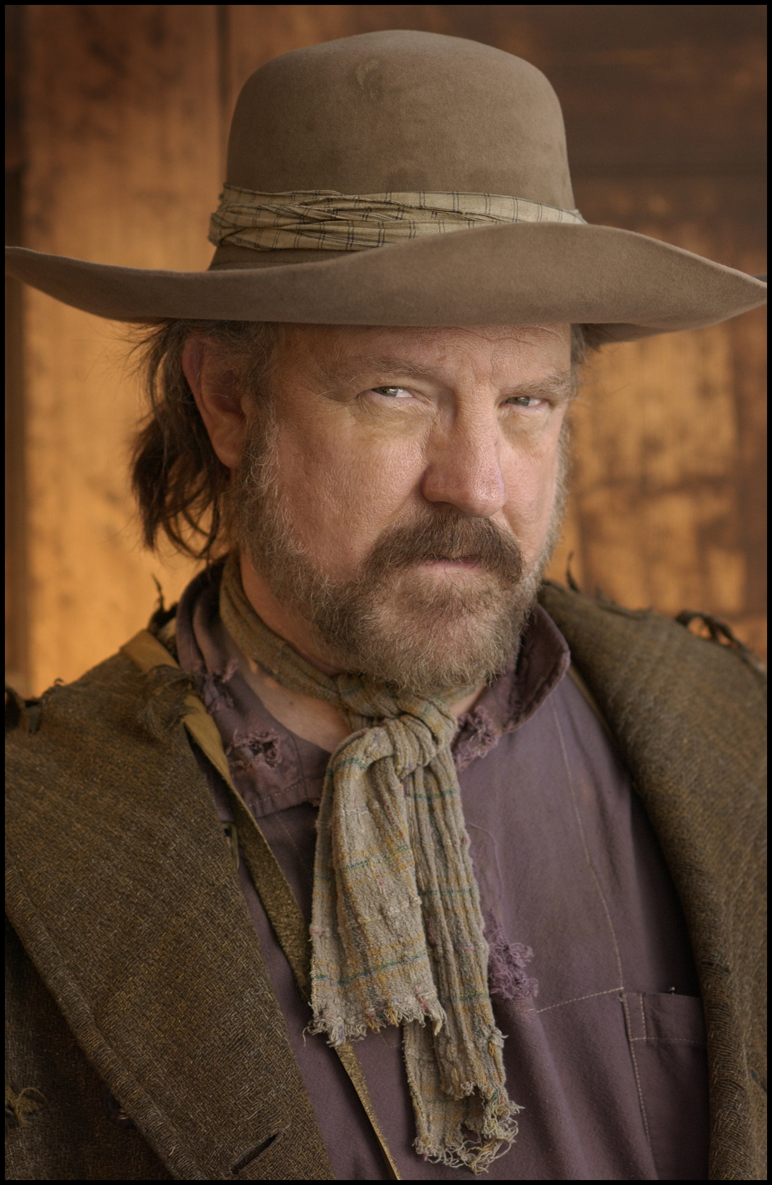 Portrait of Jim Beaver as Ellsworth in TV series Deadwood; photo by Michael Helms, copyright held and permission to Wikipedia granted by Jim Beaver